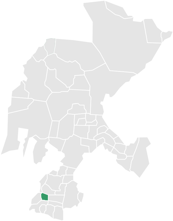 Map of the Municipality of Santa María de la Paz in Zacatecas, México.